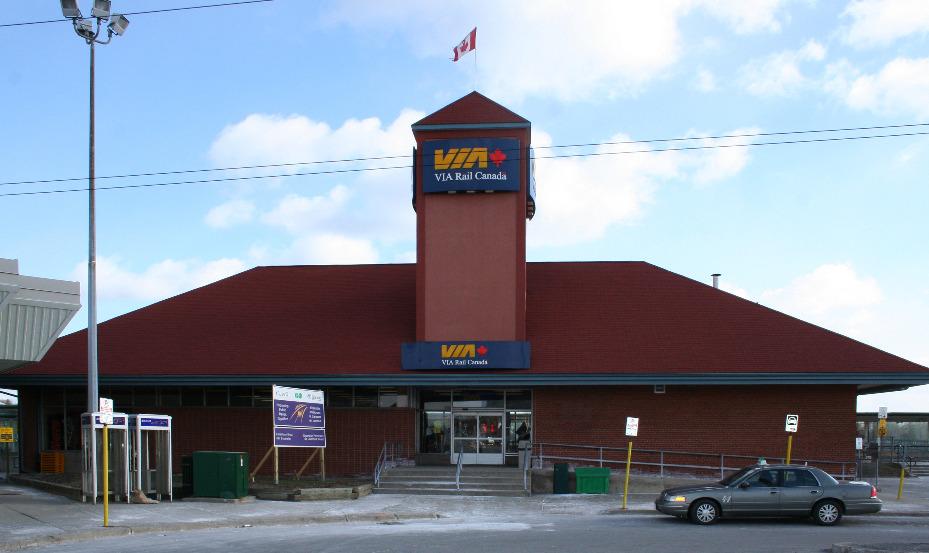 Oakville VIA Rail station